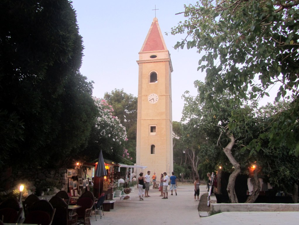 Belfry in the central plaza of Silba